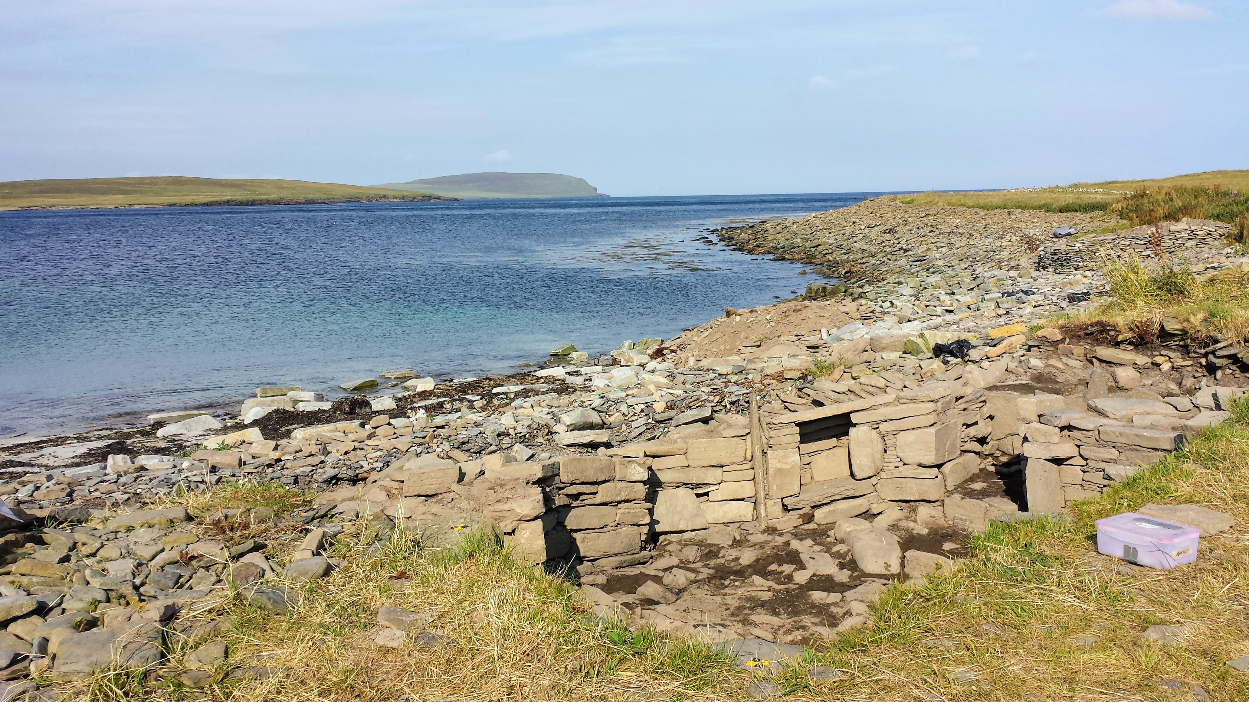 Knowe of Swandro,mound 400m SSE of Skaill,Westside Wikidata has entry Q56666605 with data related to this item.